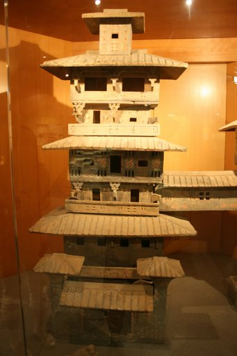 Close-up view of a Chinese mid-Eastern-Han Dynasty (25–220 CE) ceramic architectural model of a fortified multistory manor house with a covered bridge extended to a smaller watchtower (seen in the alternate picture below). This model was excavated by archaeologists in 1993 from an Eastern-Han tomb at Jiazuo, Henan Province, China. The main building is 192 cm tall, and has a courtyard with gate-towers, an exterior stairway leading from the courtyard to the front balcony of the first level, and four sets of rooftops. This information is taken from: Guo, Qinghua. (2005). Chinese Architecture and Planning: Ideas, Methods, and Techniques. Stuttgart and London: Edition Axel Menges. ISBN 3932565541. This artifact is now located in the Henan Provincial Museum, Zhengzhou, China; from collection posted at by Dr. Gary L. Todd, Professor of History, Sias International University, Xinzheng, China.